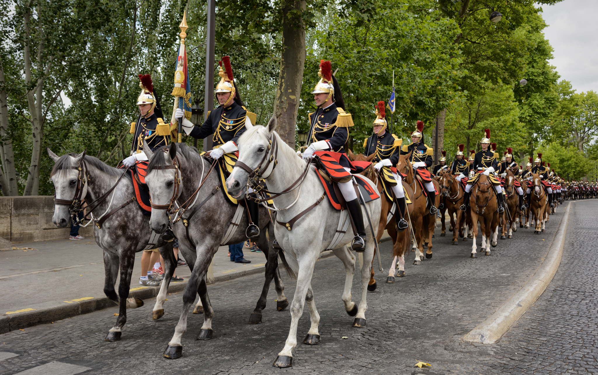 French Republican Guard in the streets of Paris after the Bastille Day 2015 military parade.